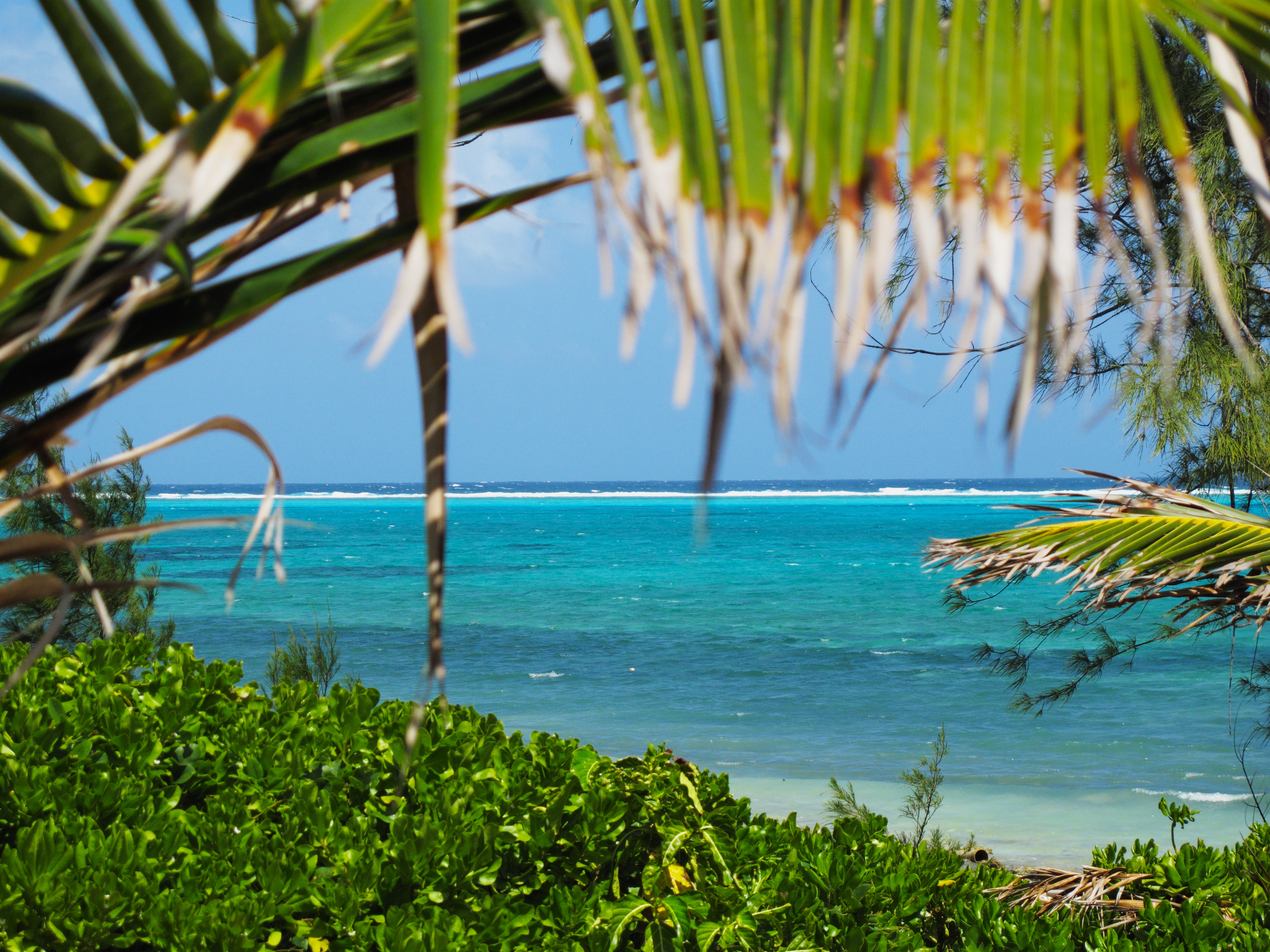 A peek at the sea inside the reef from shore. Grand Cayman Island, BWI. Published in MyMelange at: and Cayman Travel Guide. Caribbean Reef Magazine calls this a Favorite Published in Job Survivor by the New Zealand Council of Trade Unions at: Published in Wordnik at: Published online at nationareview under Travel Tips: Trip Advisor's Top 25 Caribbean Destinations included The Cayman Islands as #1. This photo represented Cayman in the travel blog: "Inside the Reef" was featured in Every Stock Photo